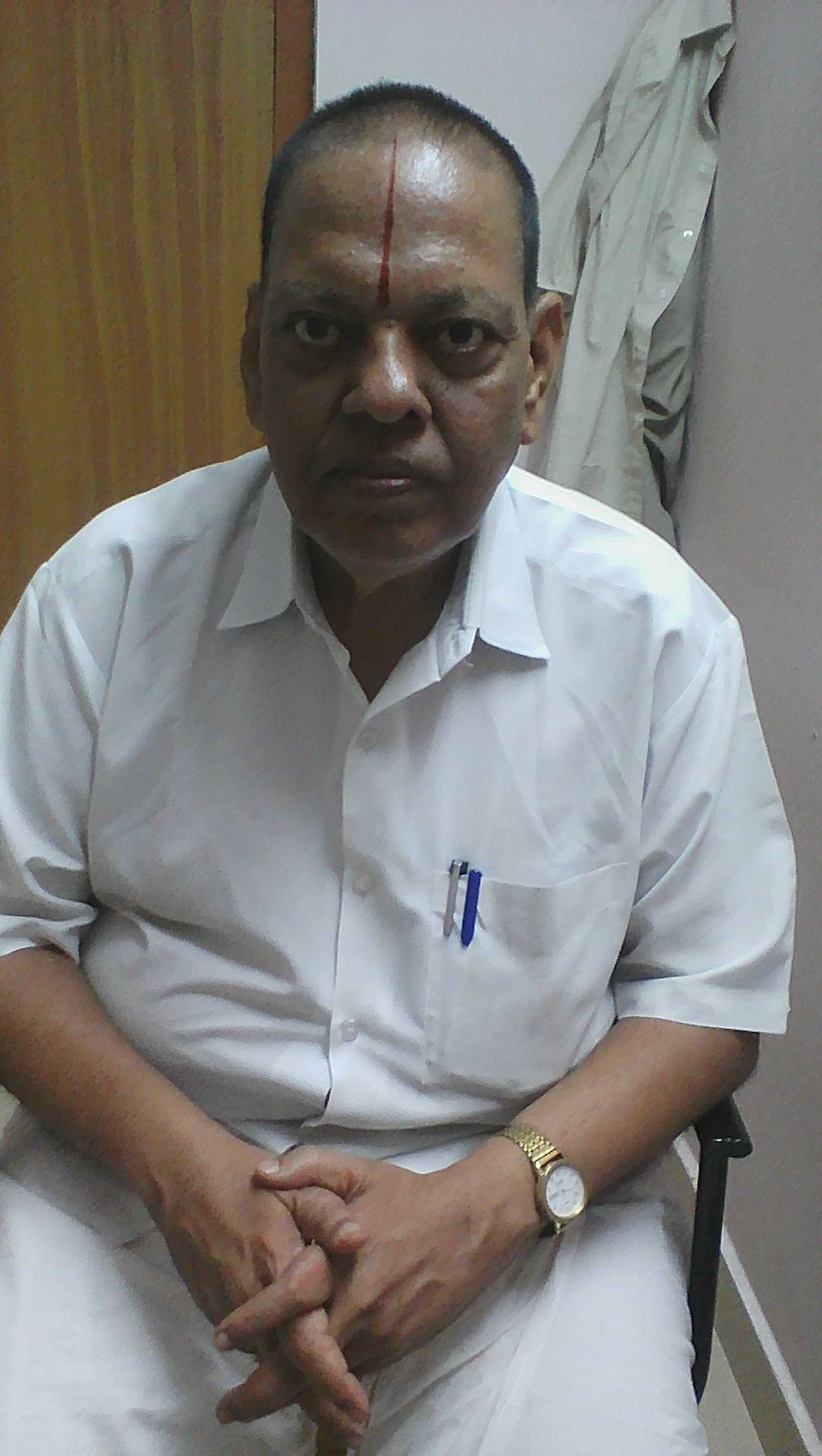 శ్రీ రాజగోపాలాచార్యులు చాయాచిత్రము